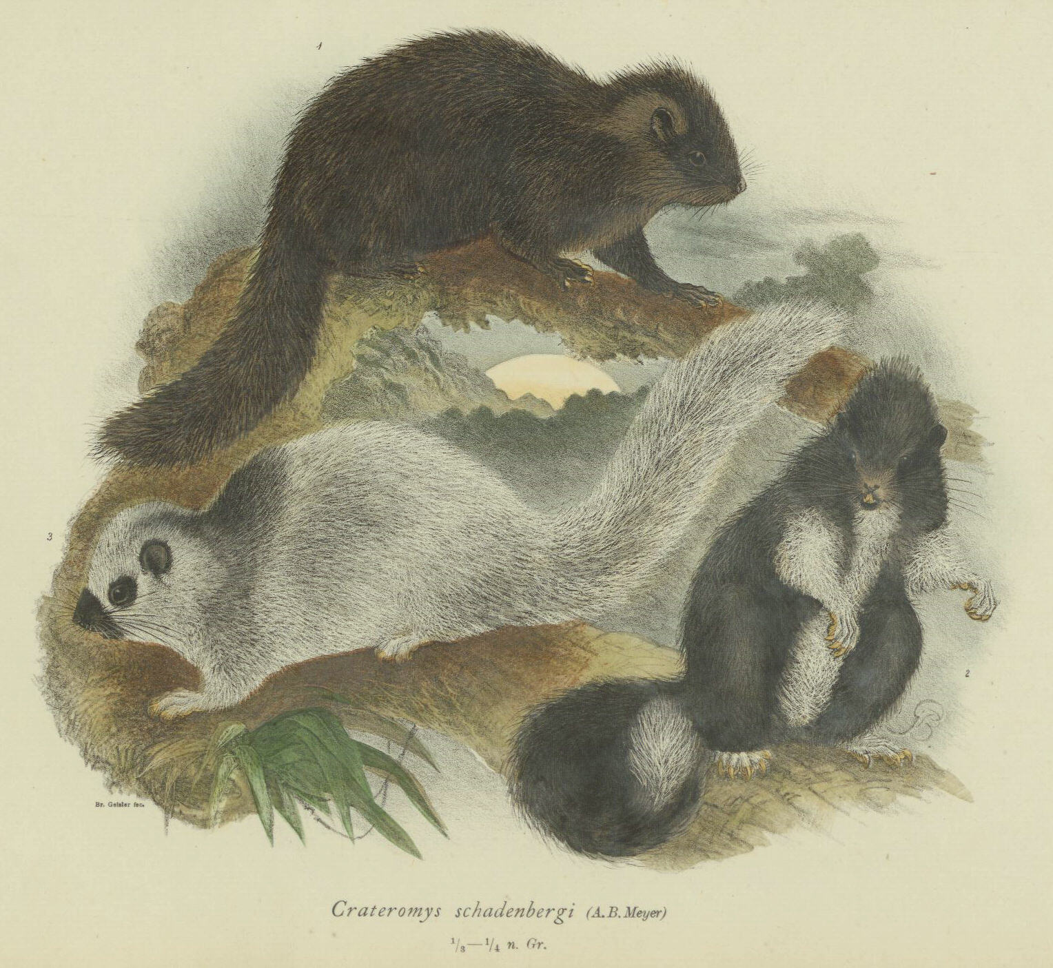 Illustration from article: Saughetier vom Celebes und Philippinen Archipel